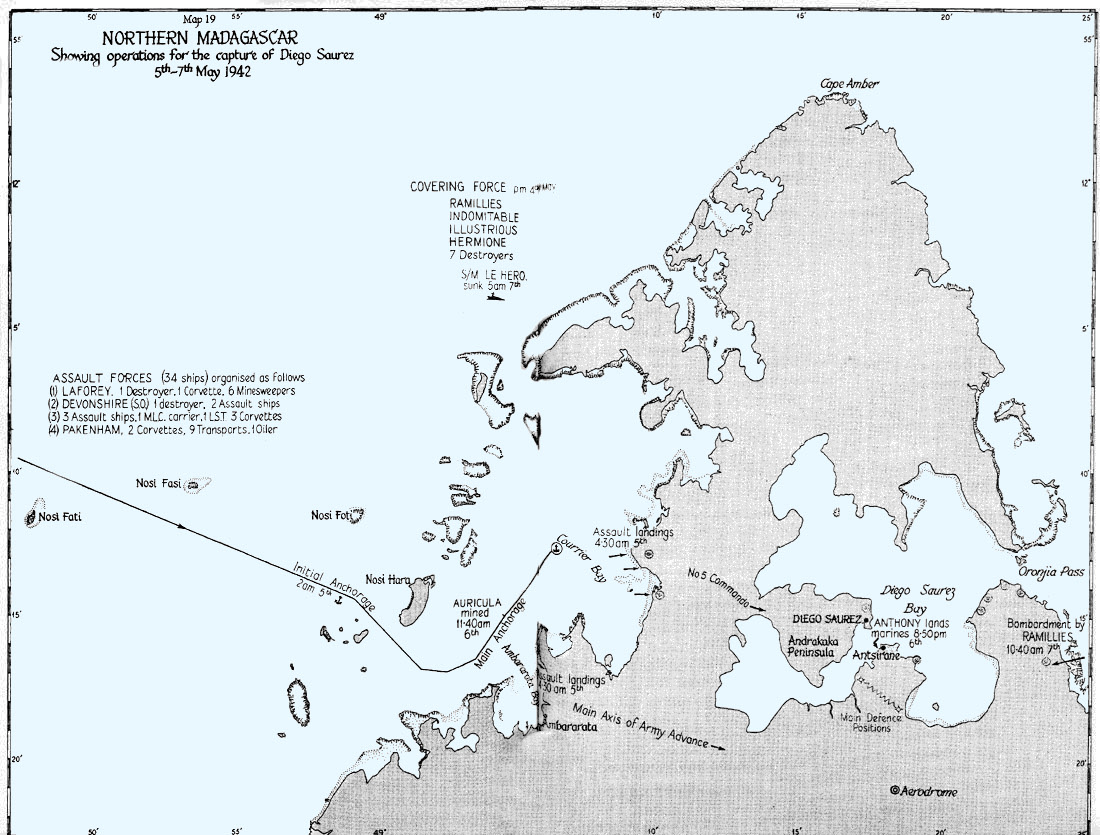 Northern Madagascar, Showing Operations for the Capture of Diego Sourez, 5th-7th May 1942.